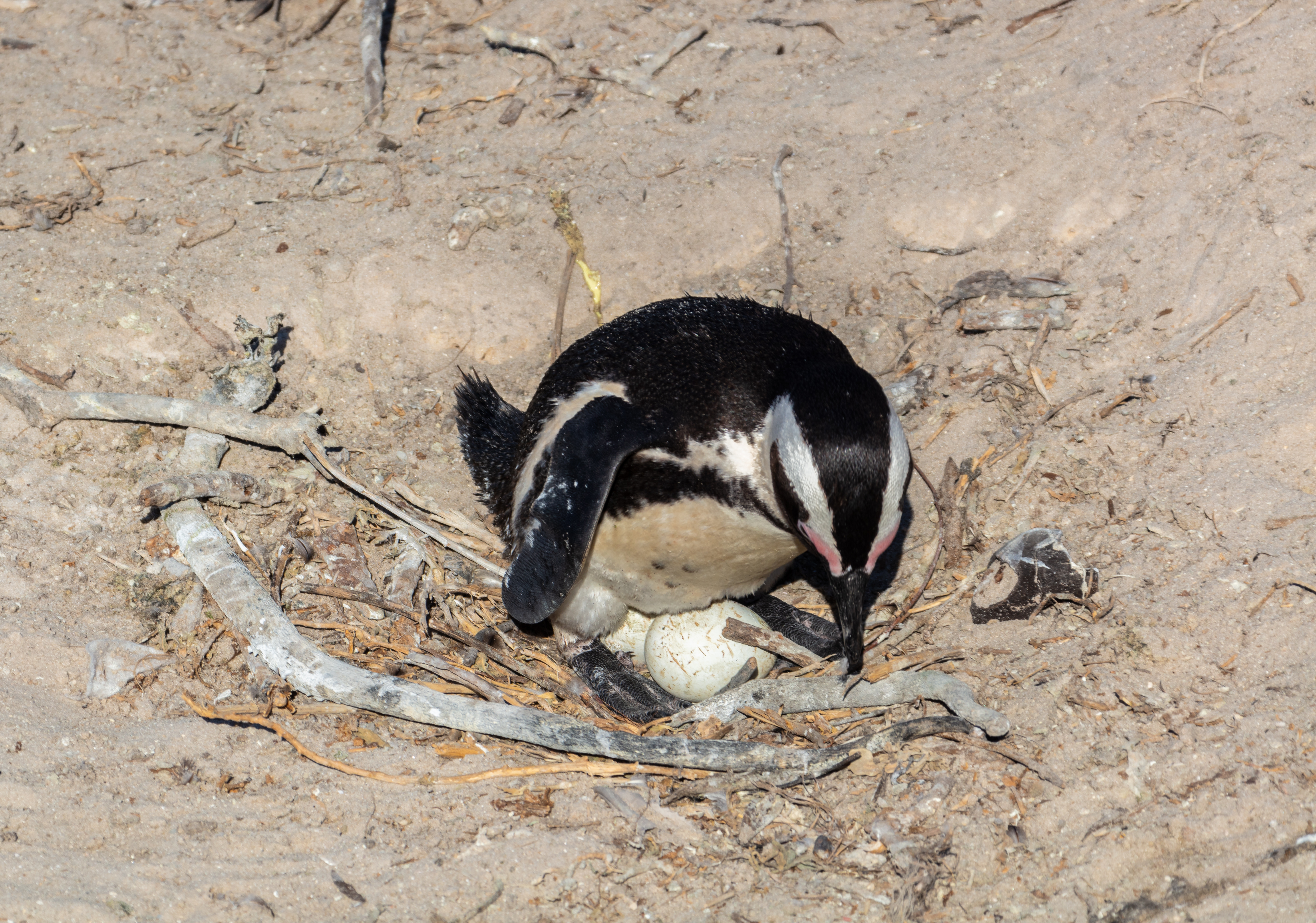 African penguin (Spheniscus demersus), Boulders Beach, Simon's Town, South Africa